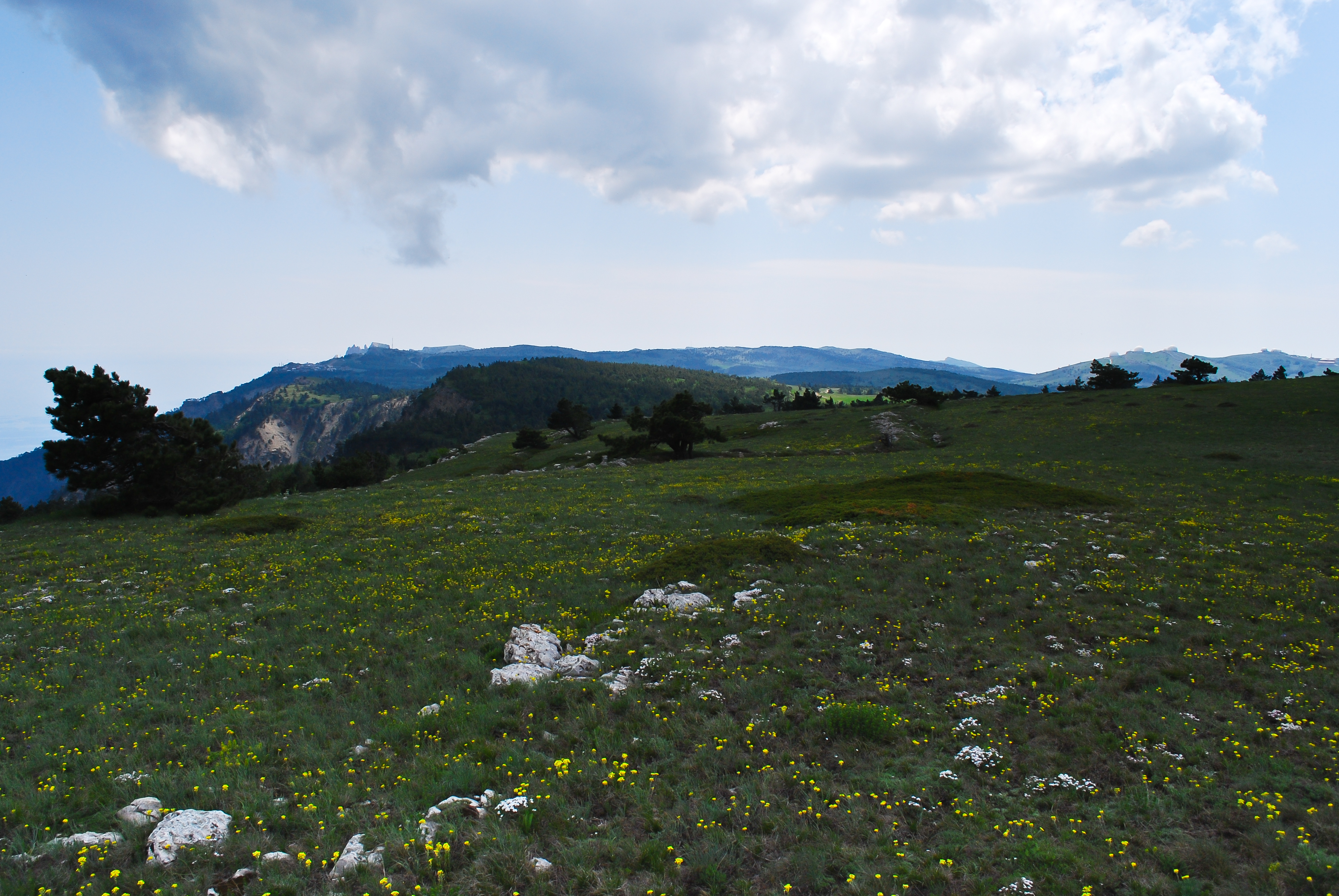 Ay-Petry Yayla, observed from its most orient part